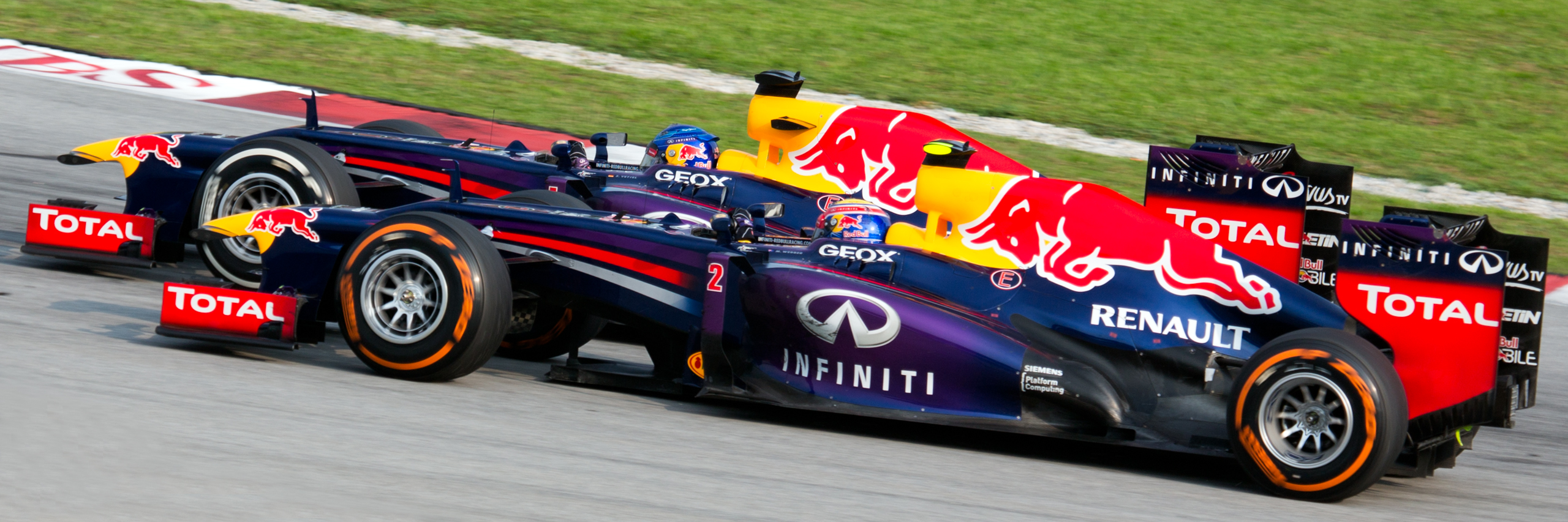 Formula One 2013 Rd.2 Malaysian GP: Sebastian Vettel (Red Bull) overtaking Mark Webber (Red Bull).